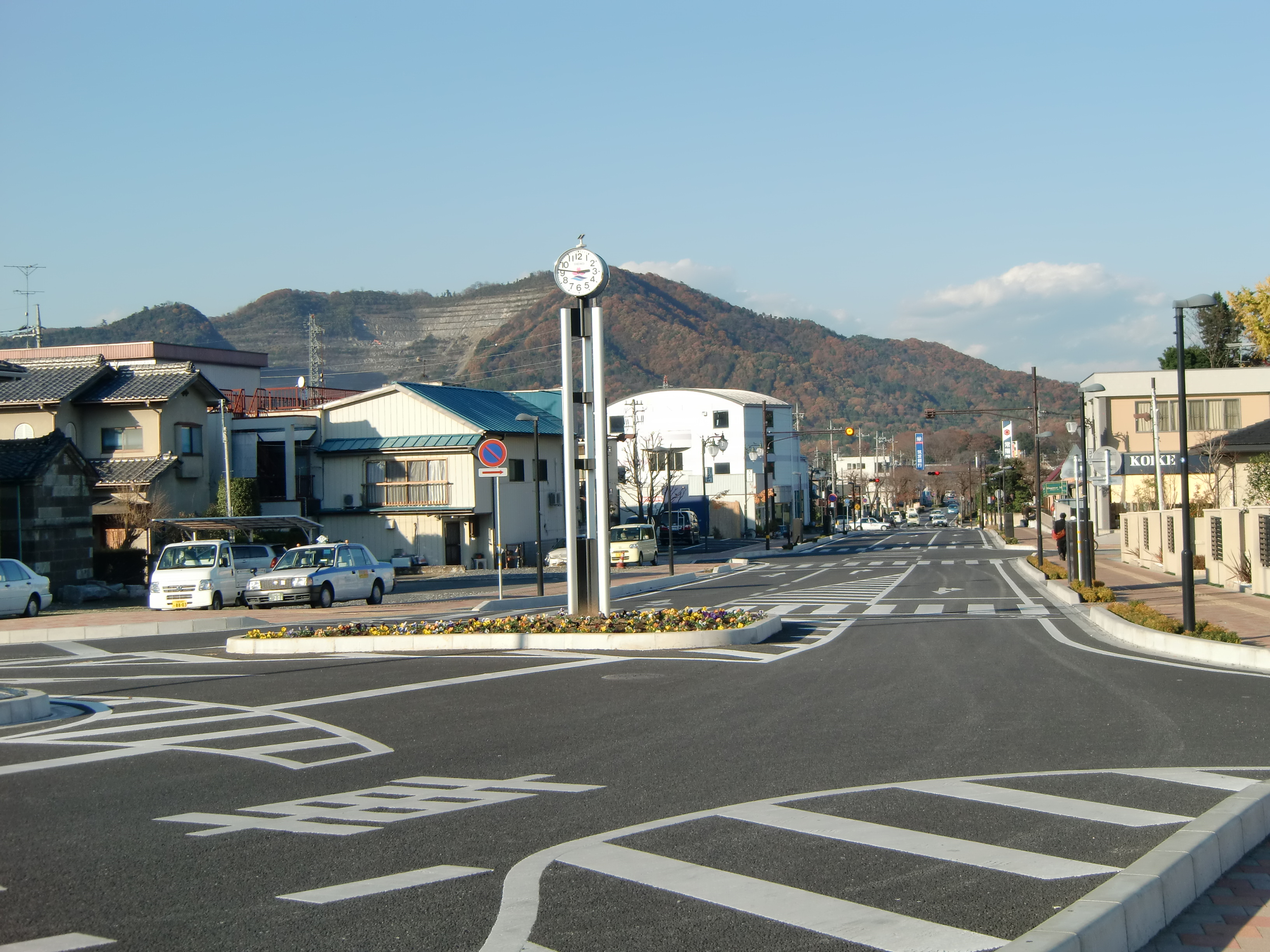 Landscape of in front of Iwase station, Inuda, Sakuragawa city, Ibaraki prefecture, Japan.